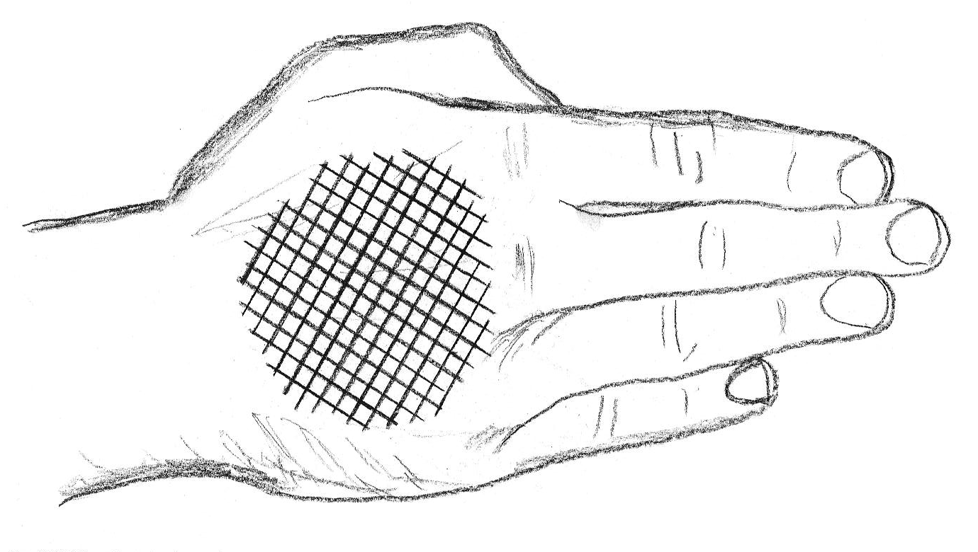 Karate: Haishu